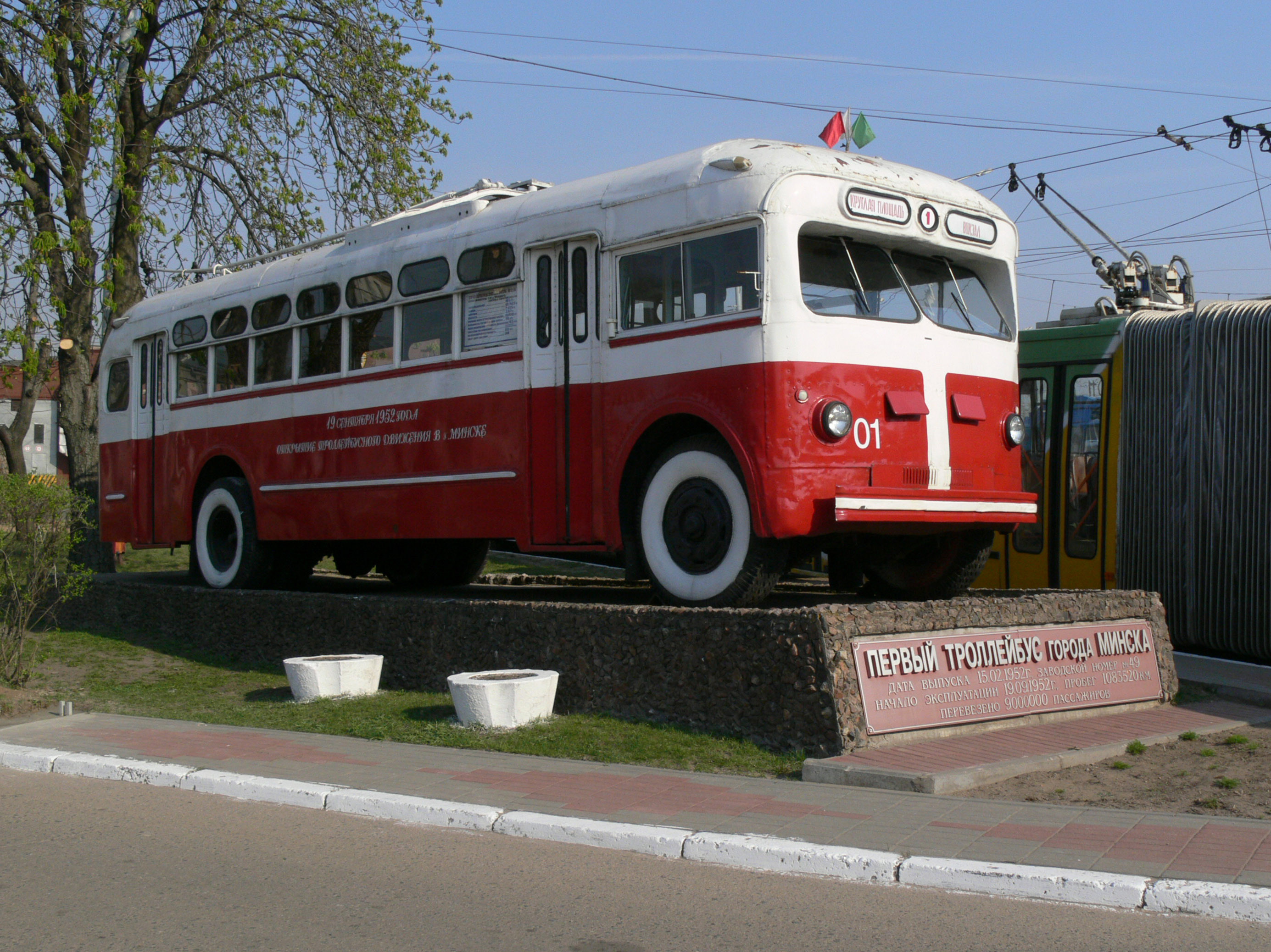 First trolleybus of Minsk